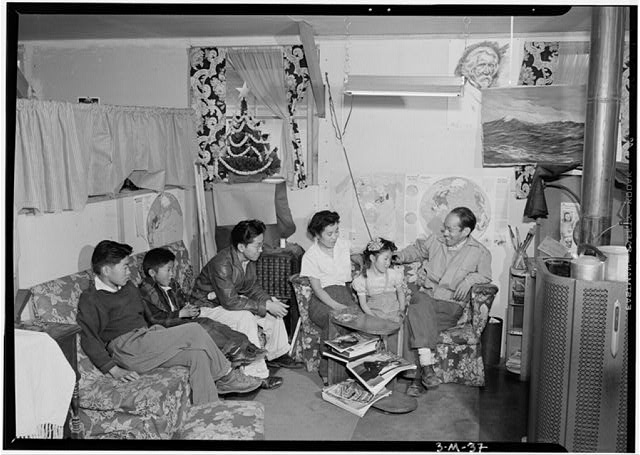 (1 in a multiple picture album) Picture from the time when the camp was inhabited. There were four families in each of the barracks.